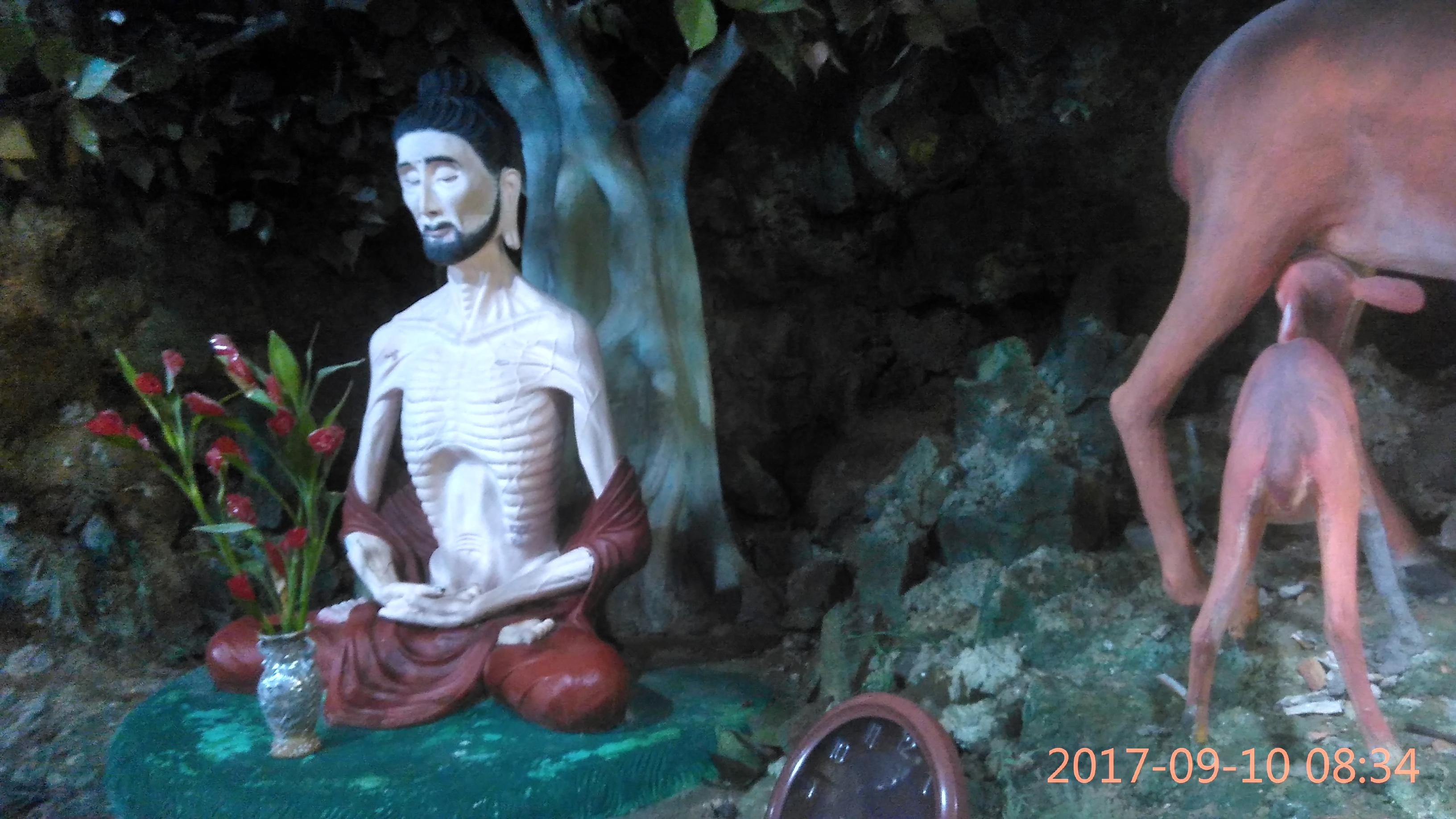 Practising Dokka Sriya မြန်မာဘာသာ: သိဒ္ဓတ္ထမင်းသား ဒုက္ကရစရိယာကျင့်နေပုံ။ ဤပုံကို မန္တလေးတိုင်းဒေသကြီးရှိ ပိတ်ချင်းမြောင်ဂူမှ ရိုက်ယူသည်။